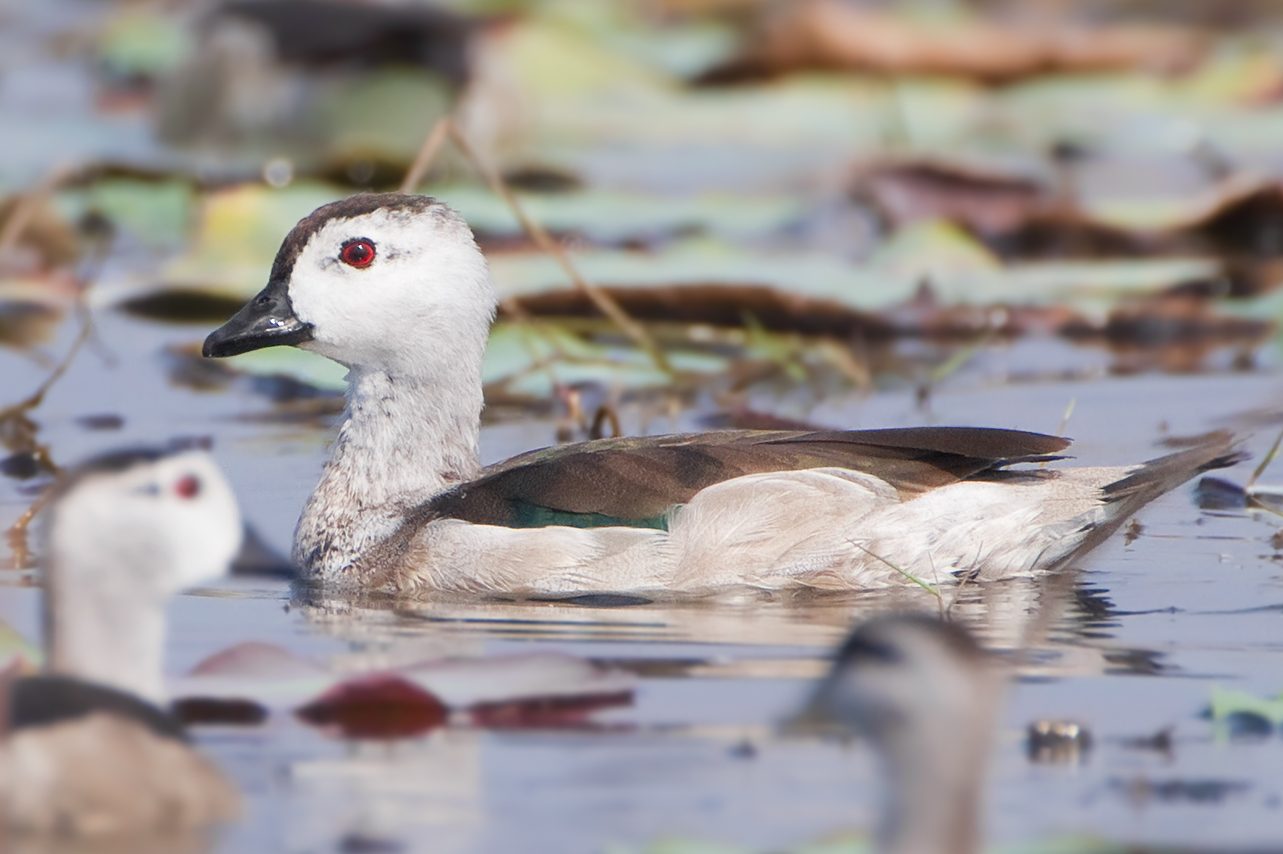 Cotton Pygmy Goose (Nettapus coromandelianus) male, Bueng Boraphet, Phra Non, Nakhon Sawan, Thailand